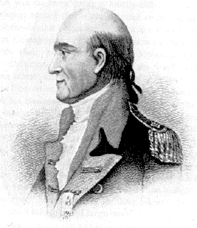 Steel engrave portrait of Edward Hand from a 19th century production.